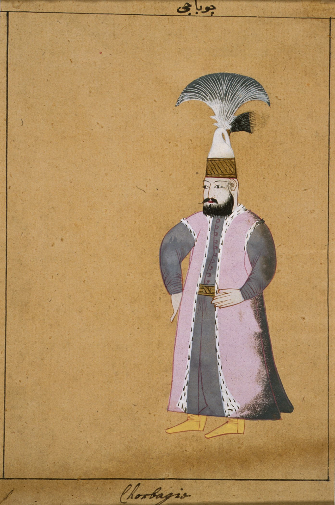 Turkey, early 18th century Manuscripts Ink and opaque watercolor on paper The Edwin Binney, 3rd, Collection of Turkish Art at the Los Angeles County Museum of Art (M.85.237.50) Islamic Art